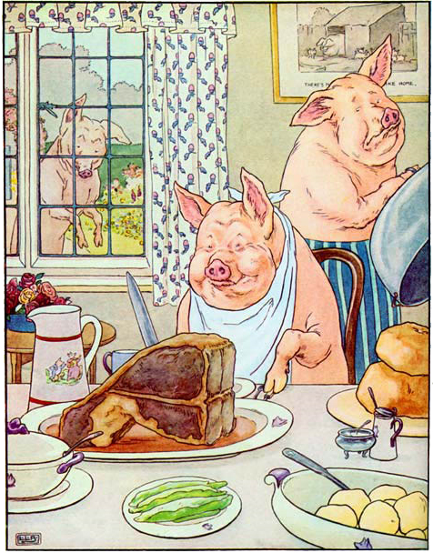 A picture depicting the pig who had roast beef in the nursey rhyme, "This little piggy"